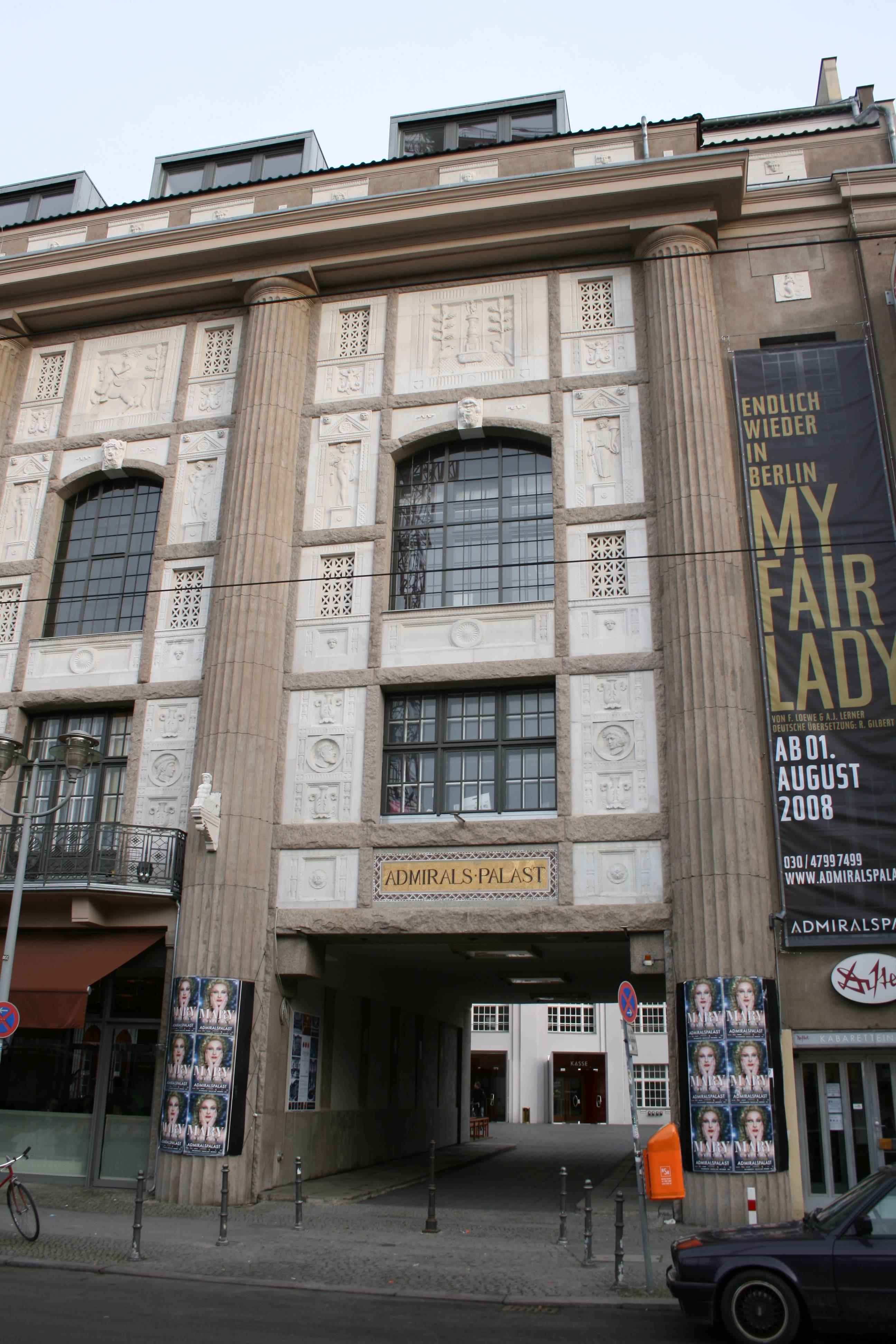 Admiralspalast in Berlin, Germany